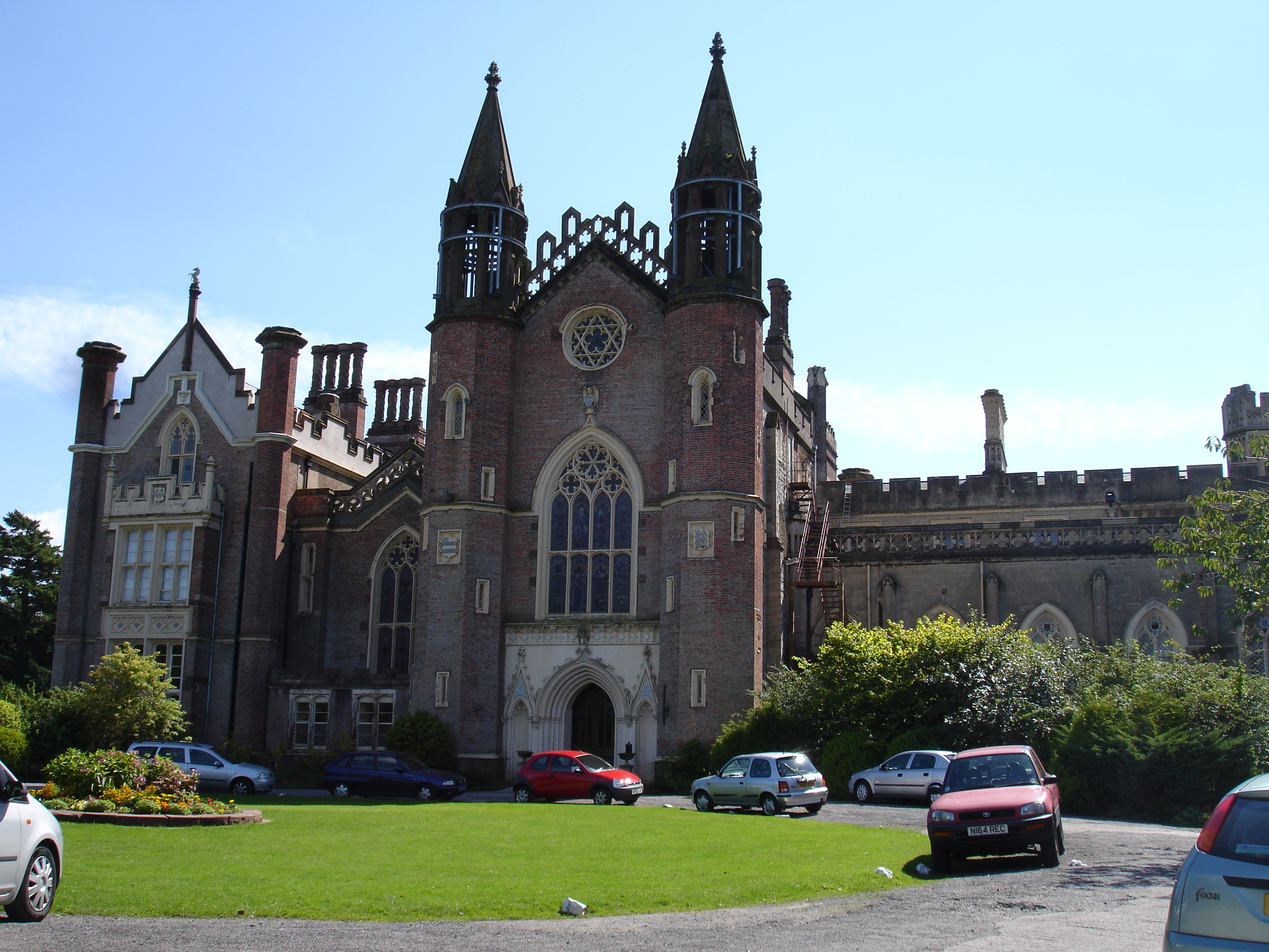 Photograph of Conishead Priory, Cumbria, England